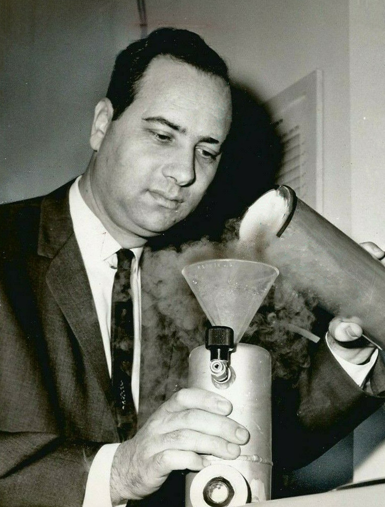 PRESS PHOTO #283 1964 DR THEODORE MAIMAN INVENTOR OF LASER